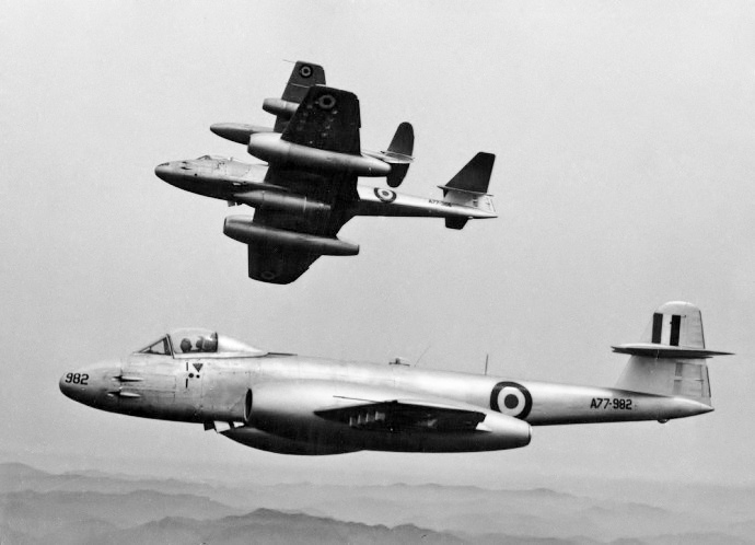 Iwakuni, Japan. Peeling off... Australian pilots flying Meteor jets breaking formation. The description of a related image states the Meteors are doing manoeuvres as part of a training exercise.